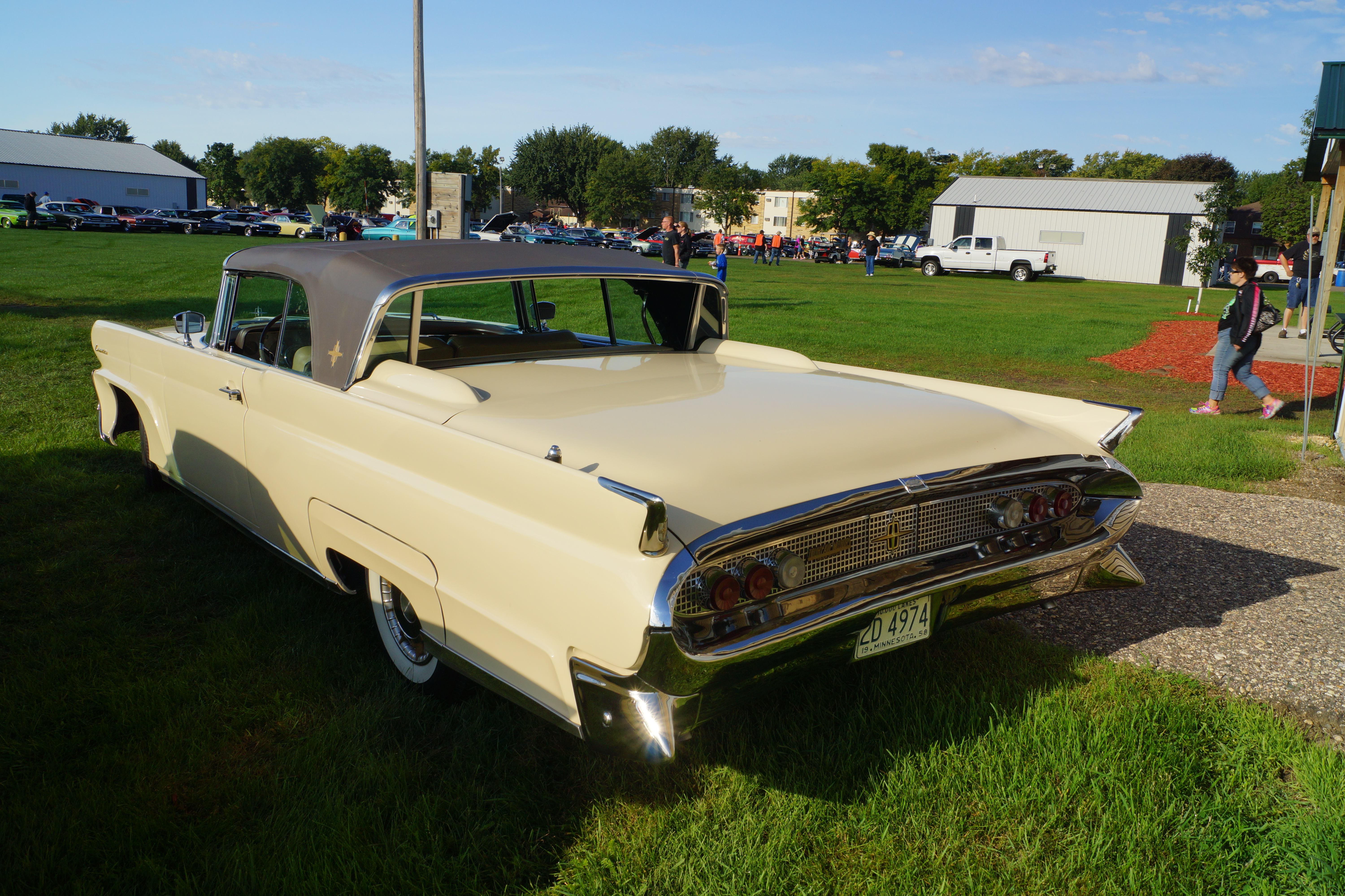 Auto Restorers Club of Southern Minnesota 40th Annual Car Show & Swap Meet Nicollet County Fairgrounds St. Peter, Minnesota September 2016 Click here for more car pictures at my Flickr site.